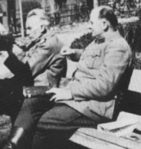 Ljotić and Sava (Jovan) Saračevič. Српски (ћирилица): Љотић и Сава (Јован) Сарачевић.